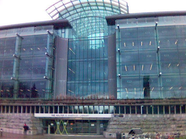 Koerner Library at the University of British Columbia in the University Endowment Lands of Vancouver. Its general landscape is the surroundings for the "University of Metropolis" and "Central A&M Kansas University" throughout seasons 3-5 of the television series Smallville.